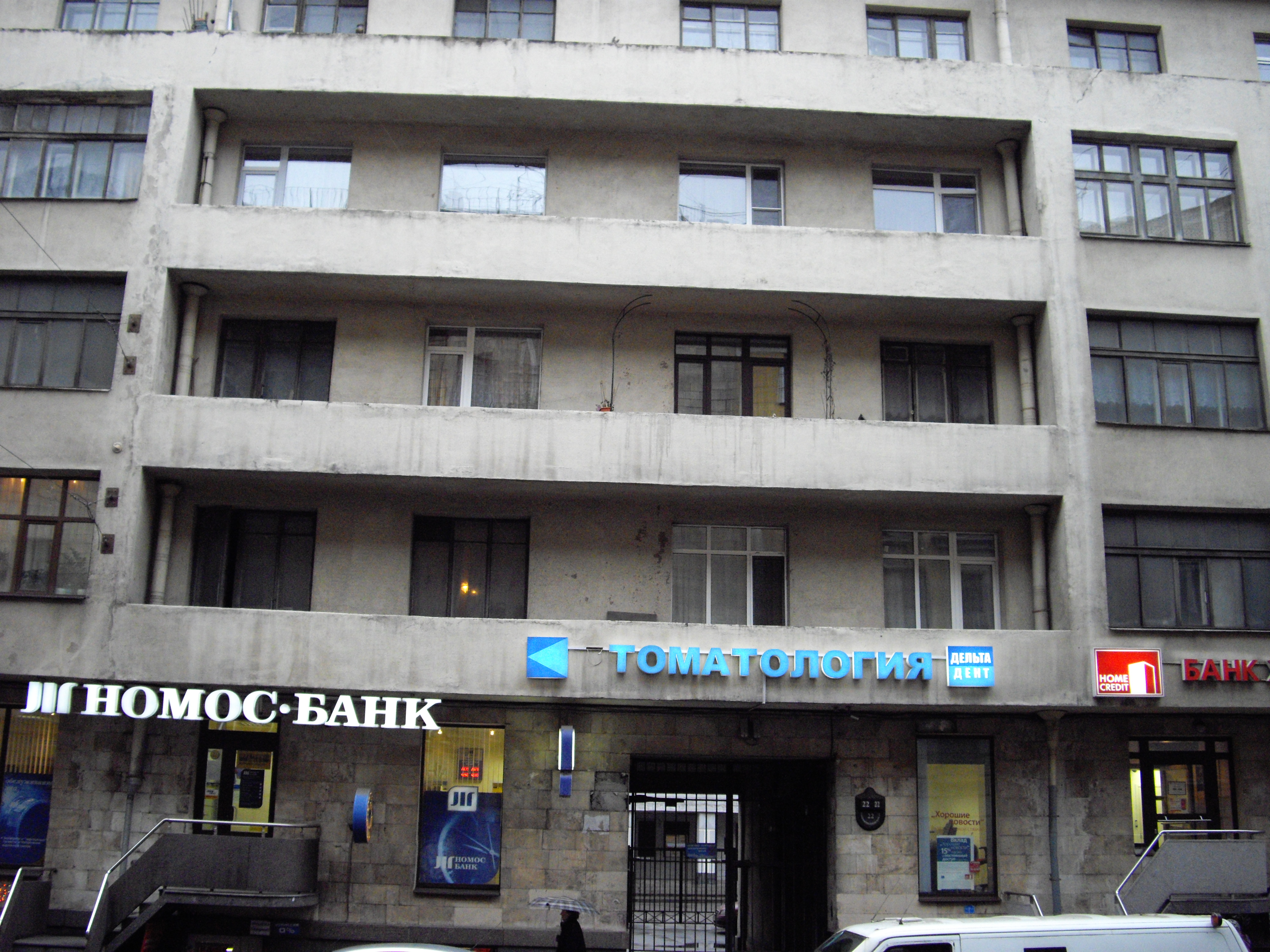 22 (left part), Kamennoostrovsky Prospekt, Saint-Petersburg, Russia.